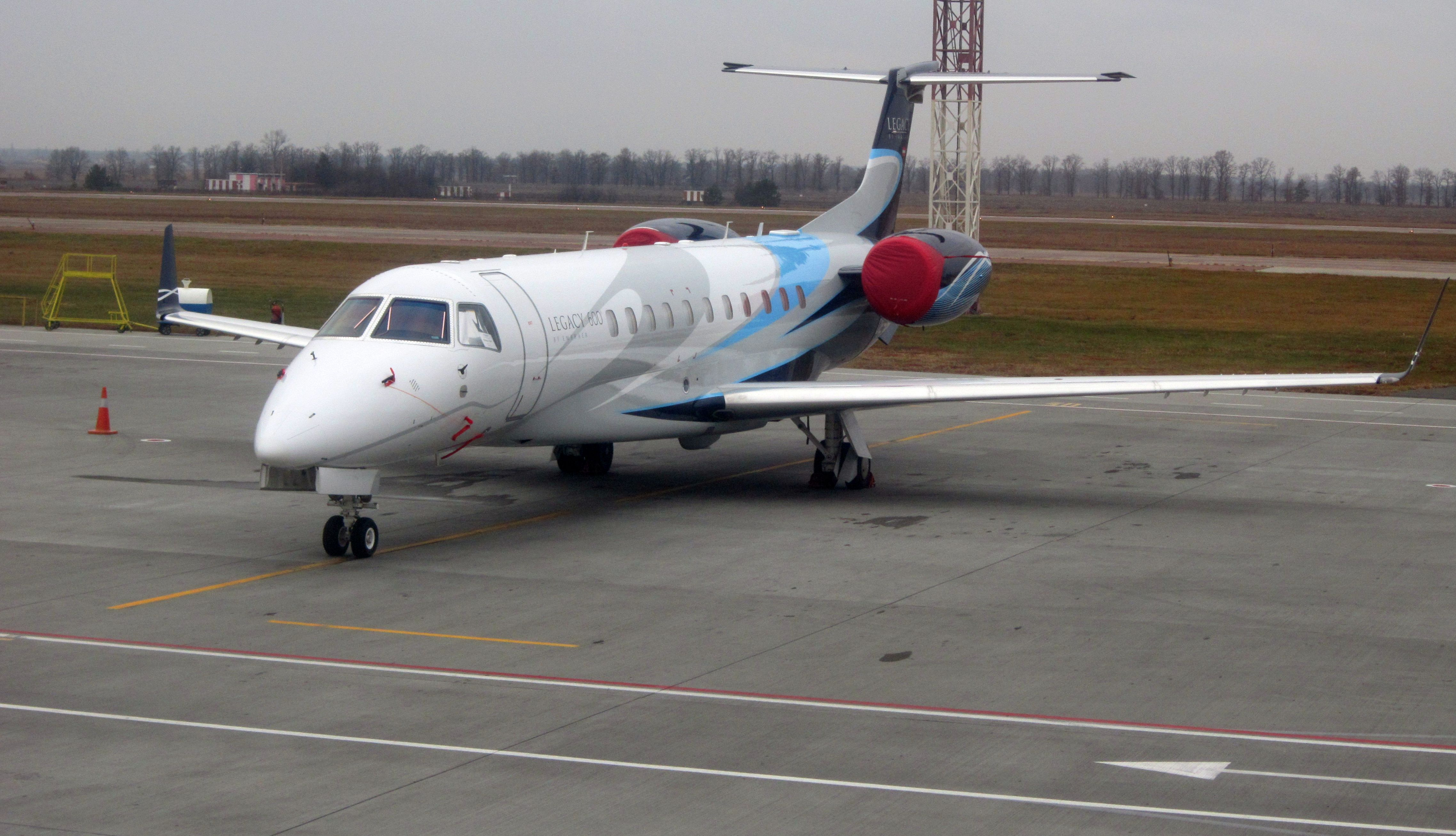 Embraer Legacy 600 at Boryspil International Airport